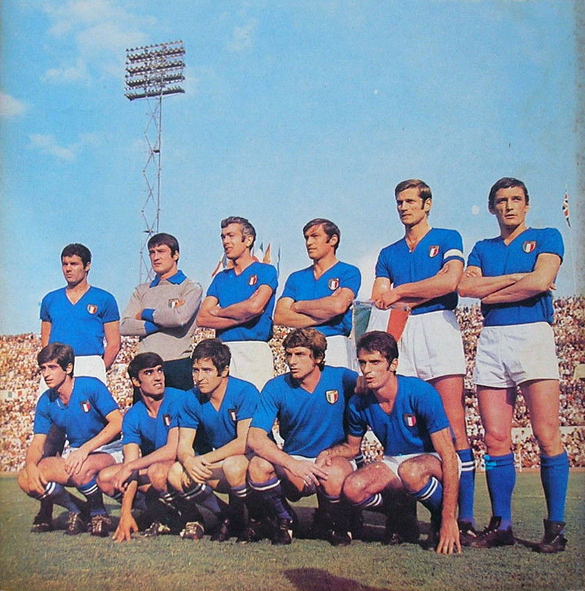 Group photograph of the Italian national association football team that beat Wales 4-1 at Stadio Olimpico in Rome during the 1970 FIFA World Cup European qualifying. From left to right, standing: Sandro Salvadore, Enrico Albertosi, Giorgio Puia, Tarcisio Burgnich, Giacinto Facchetti (c), Luigi Riva; crouched Gianni Rivera, Pietro Anastasi, Giancarlo De Sisti, Mario Bertini e Angelo Domenghini.